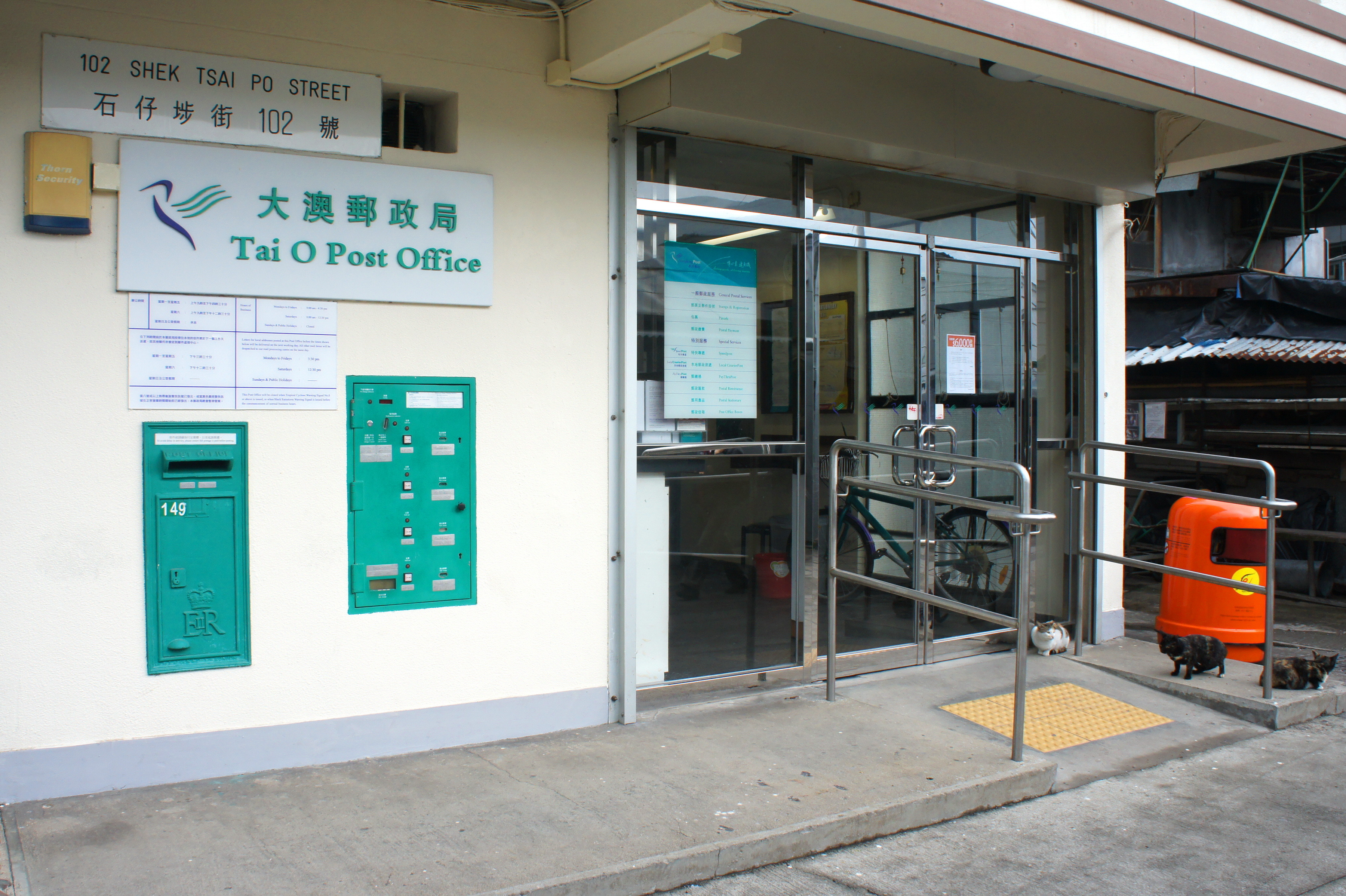 Tai O Post Office (102 Shek Tsai Po Street, Tai O, Lantau Island, Hong Kong)